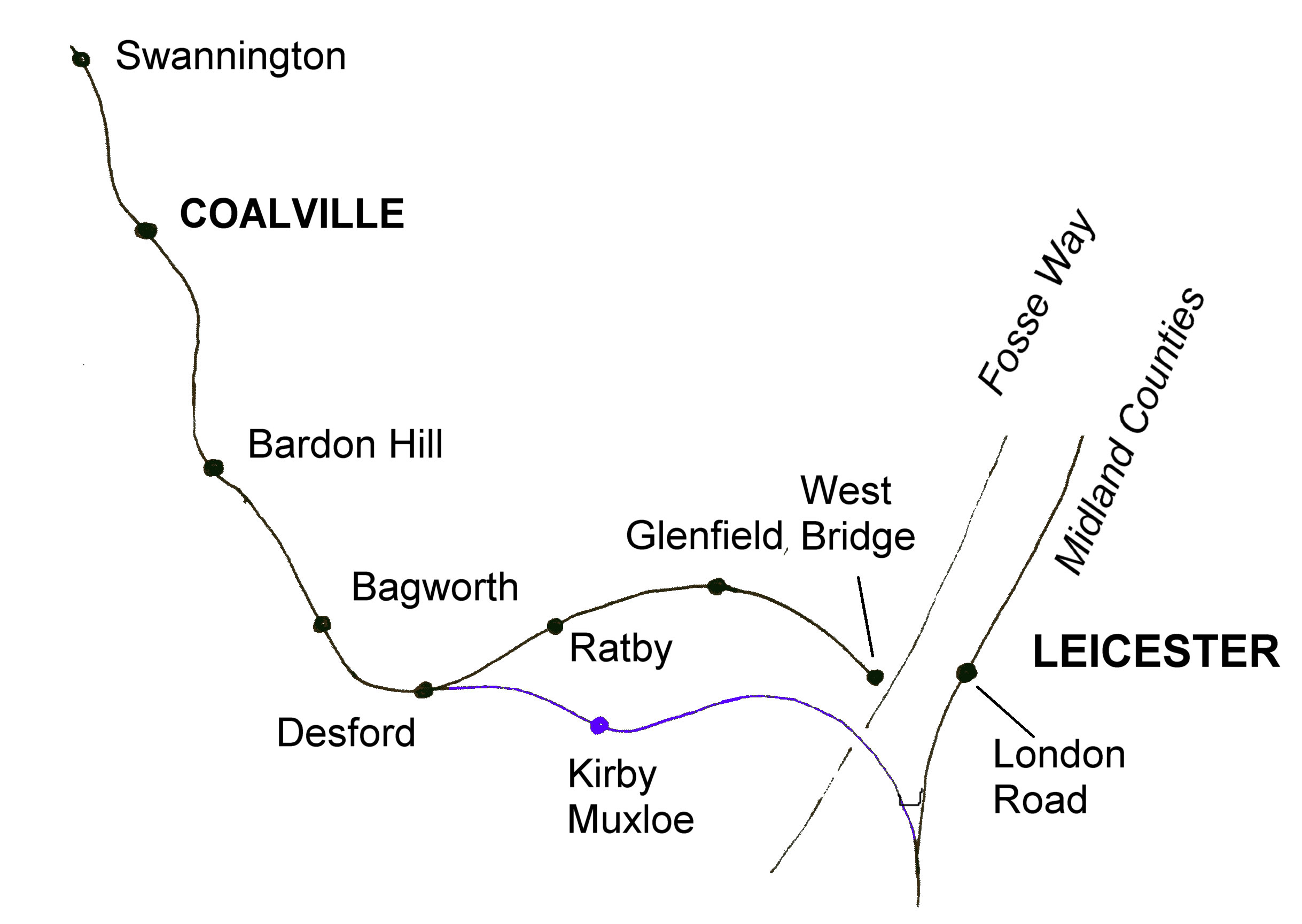 Map of the Leicester and Swannington Railway